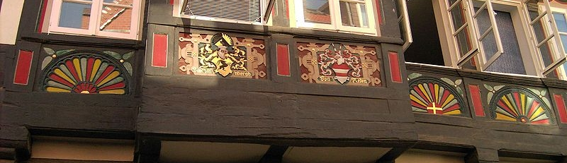 Description: Hildesheim, Hinterer Brühl *Photographer: Longbow4u, photo taken myself, 2005-07-02 *Licence